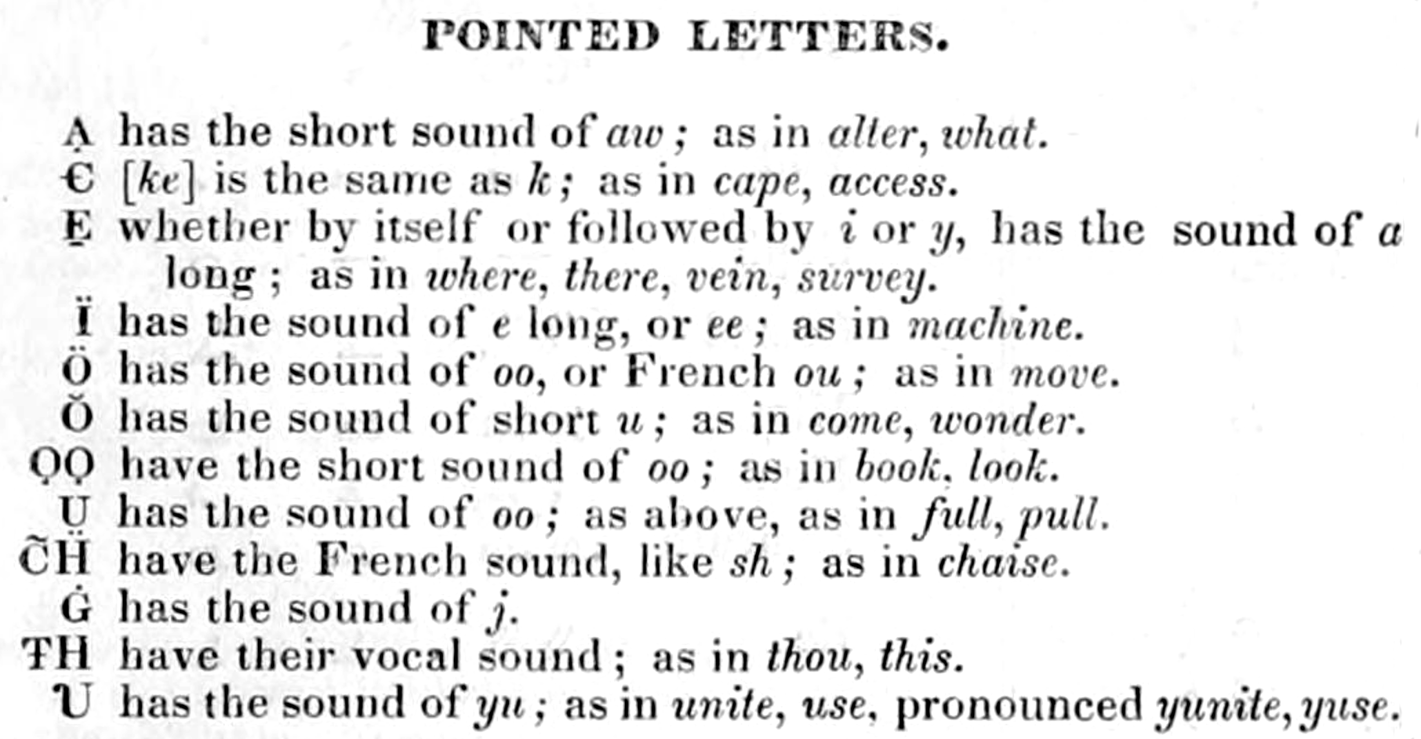 "Pointed letters" used in Webster’s 1828 edition of the An American dictionary of the English language